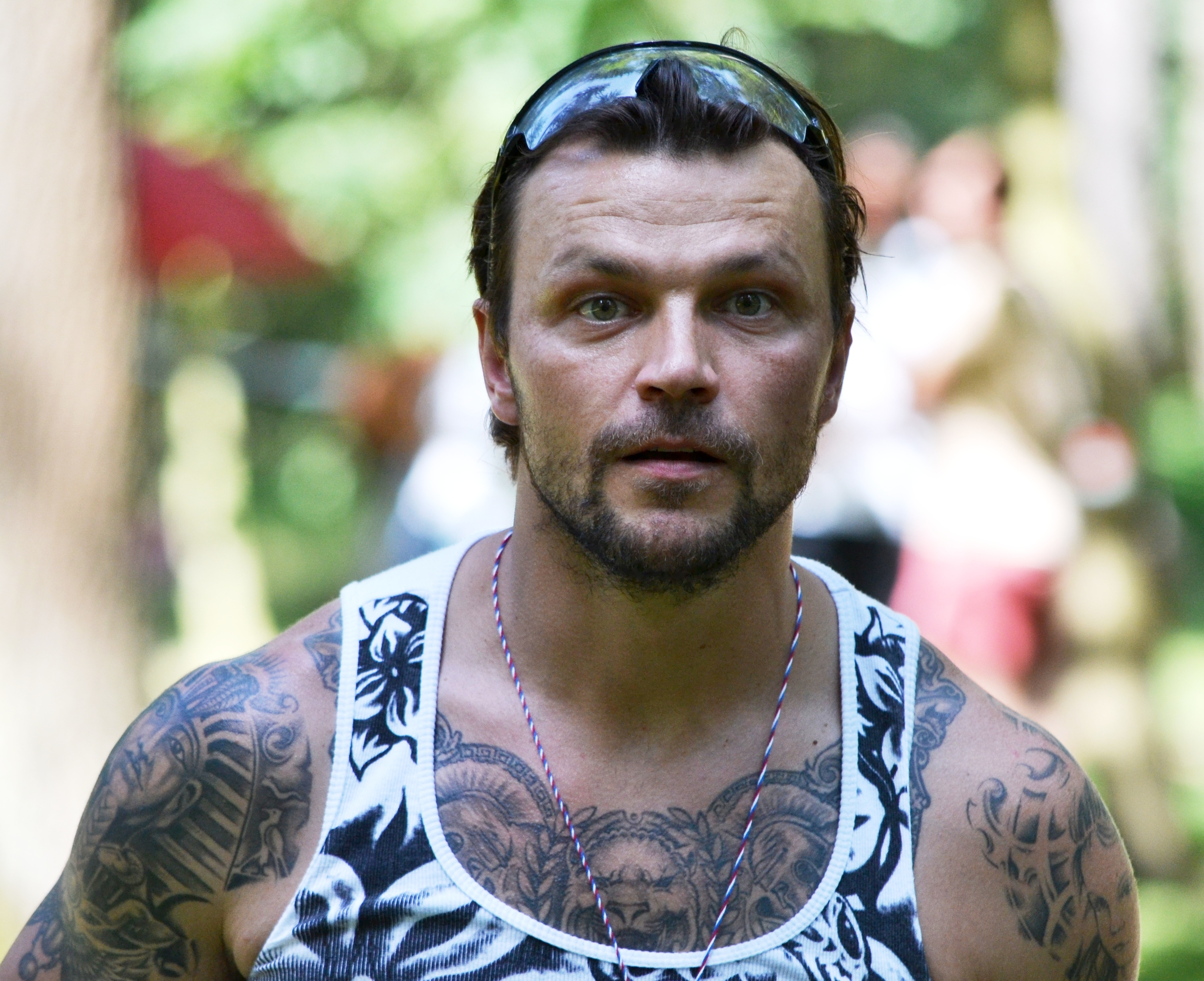 Tomáš Ujfaluši, Czech footballer